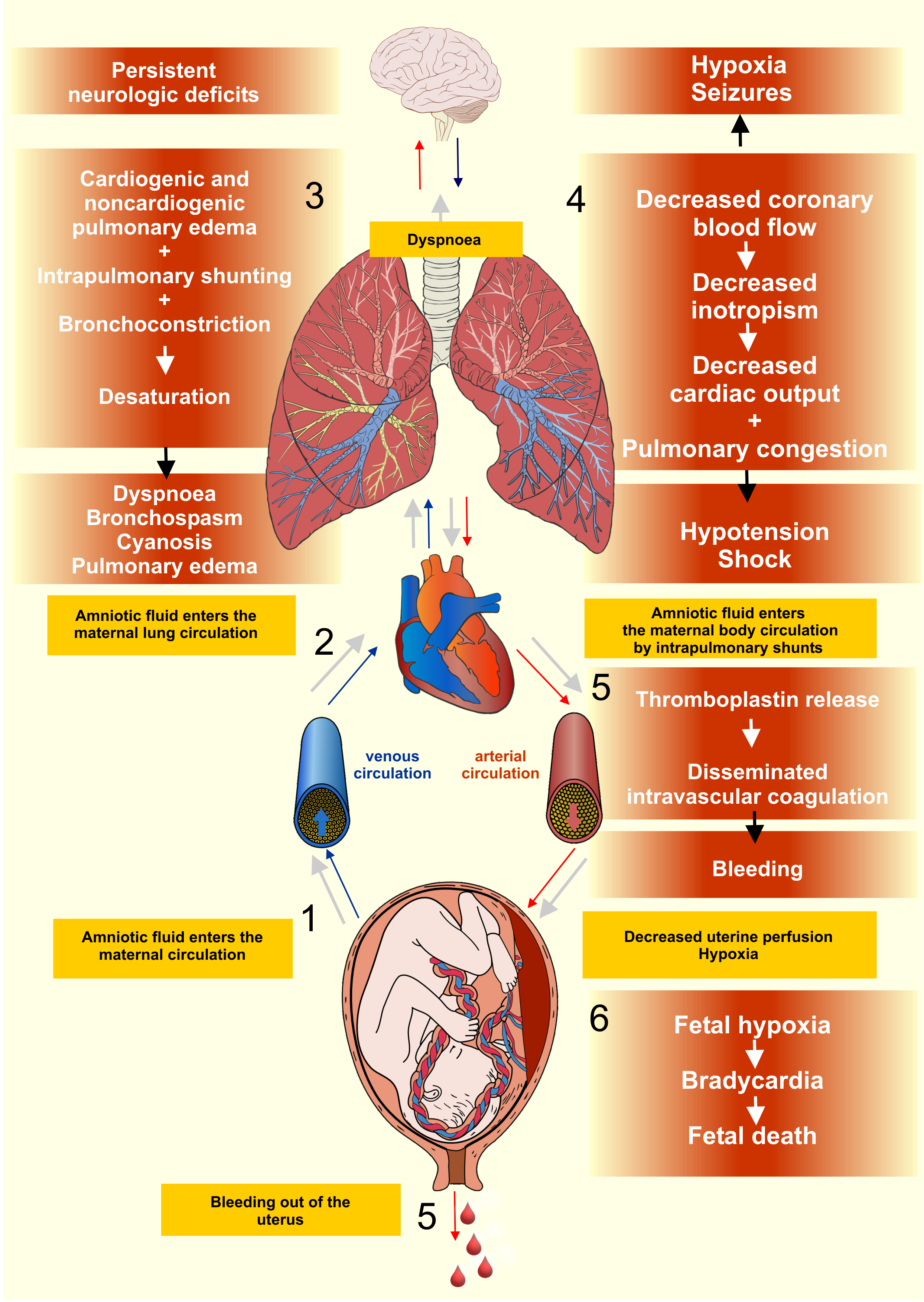 Pathophysiology of the amniotic fluid embolism (the arrows indicate the oxygen content of the blood: red – rich in oxygen, blue – poor in oxygen)